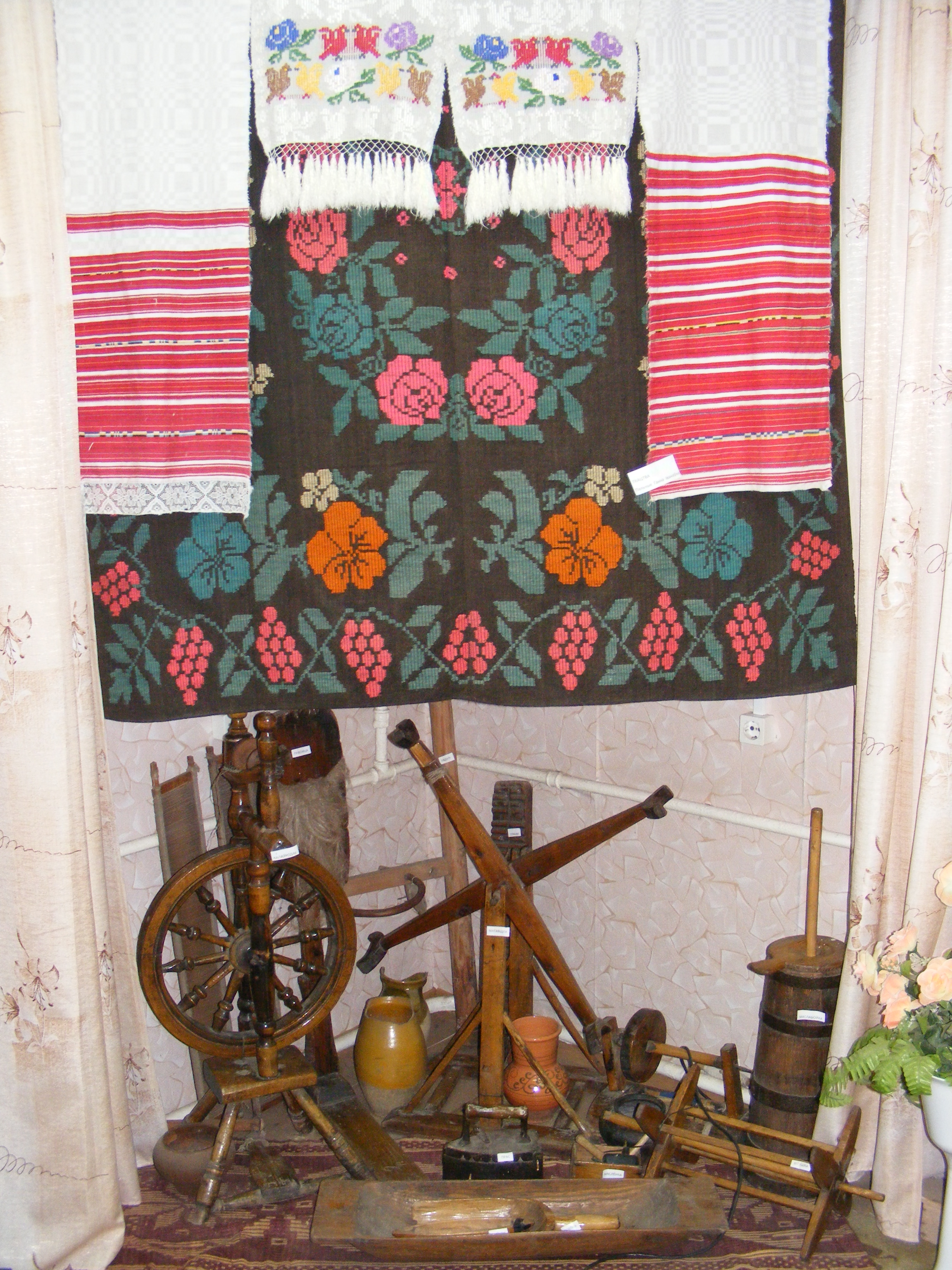 The exposition in Culture House of Žarabkovičy. The things are created by the residents of Žarabkovičy village, Lyakhavichy Raion, Brest Region, Belarus.